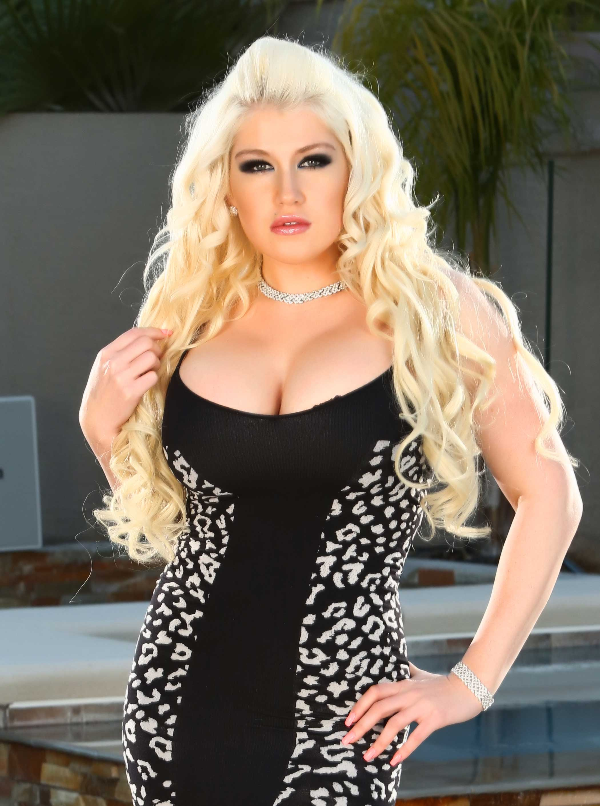 Nikki Phoenix from the cover shoot over her EDM single release she did vocals on and wrote.